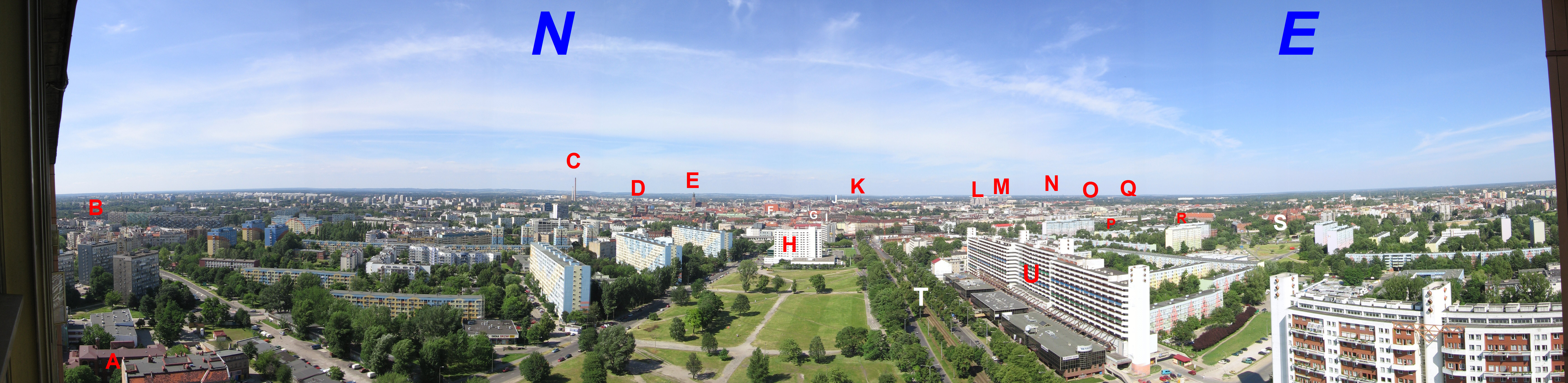 Wrocław, Poland, June 2005. 180° panorama from 24th floor of non-existing now "Poltegor" building (Powstańców Śl. street 95) Blue big letters N & E - north and east directions. Other landmarks: A - onkological hospital, Hirszfelda sq. B - steeple of St. Elisabeth Church, Grabiszyńska st. C - two shafts of power station, Łowiecka st. D - two towers of the Voivodship Court building, Sądowa st. E - steeple of St. Elisabeth Garrison Church, St. Elisabeth st. F - roof of St.Dorothea, Stanisław & Wacław Church, Wolności sq. G - steeple of Corpus Christi Church, Świdnicka st. H - Hotel "Wrocław", Powstańców Śl. st. I - "Renoma" warehouse, ul. Świdnicka J - steeple of Holly Cross and St. Bartholomew Church, Church sq. K - two steeples of St. John Baptist Archicathedral, Katedralny sq. L - "sedesowce" - buildings on Grunwaldzki sq. M - "Ołówek" & "Kredka" ("Pencil" & "Crayon"), two dormitories of University of Wroclaw, Grunwaldzki sq. N - four pylons with lamps over "Olympic Stadium", Paderewski av. O - water tower, Na Grobli st. P - roofs over platforms of Dworzec Główny - Main Railway Station, Piłsudskiego st. & Sucha st. Q - Hala Ludowa (Century's Hall), Wystawowa st. R - Regional Lower-Silesian Railway Headquarter, Dyrekcyjna st. S - Clinical Hospital, Hubska st. T - Powstańców Śląskich street U - galeriowiec - the building along Powstańców Śl. st.